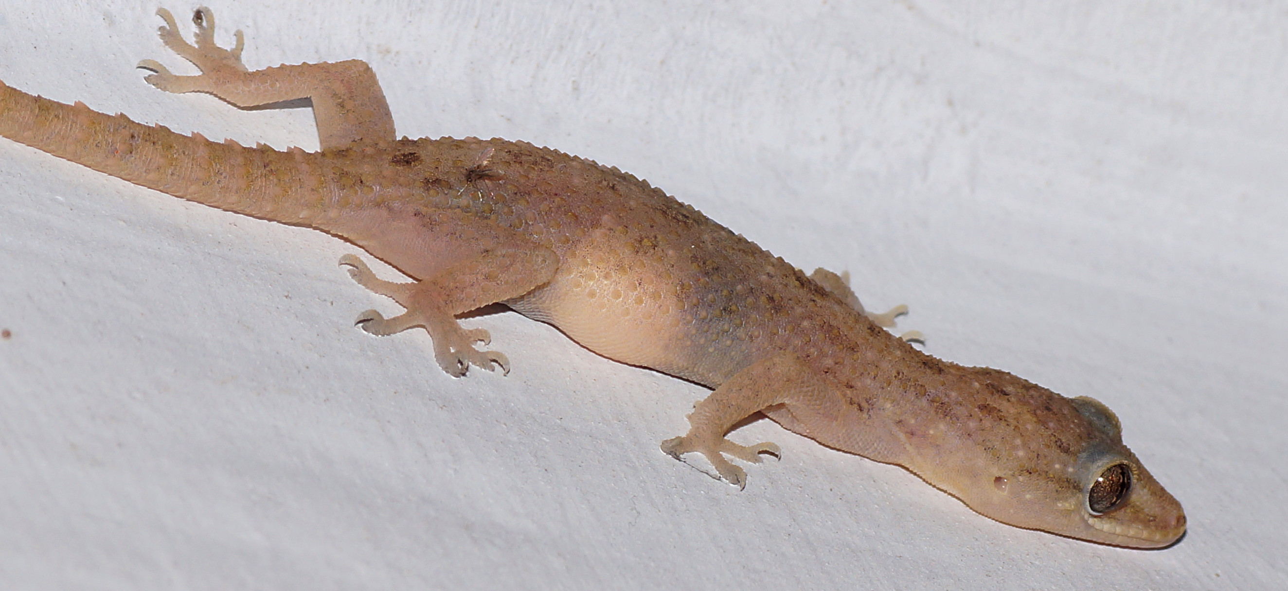 House gecko